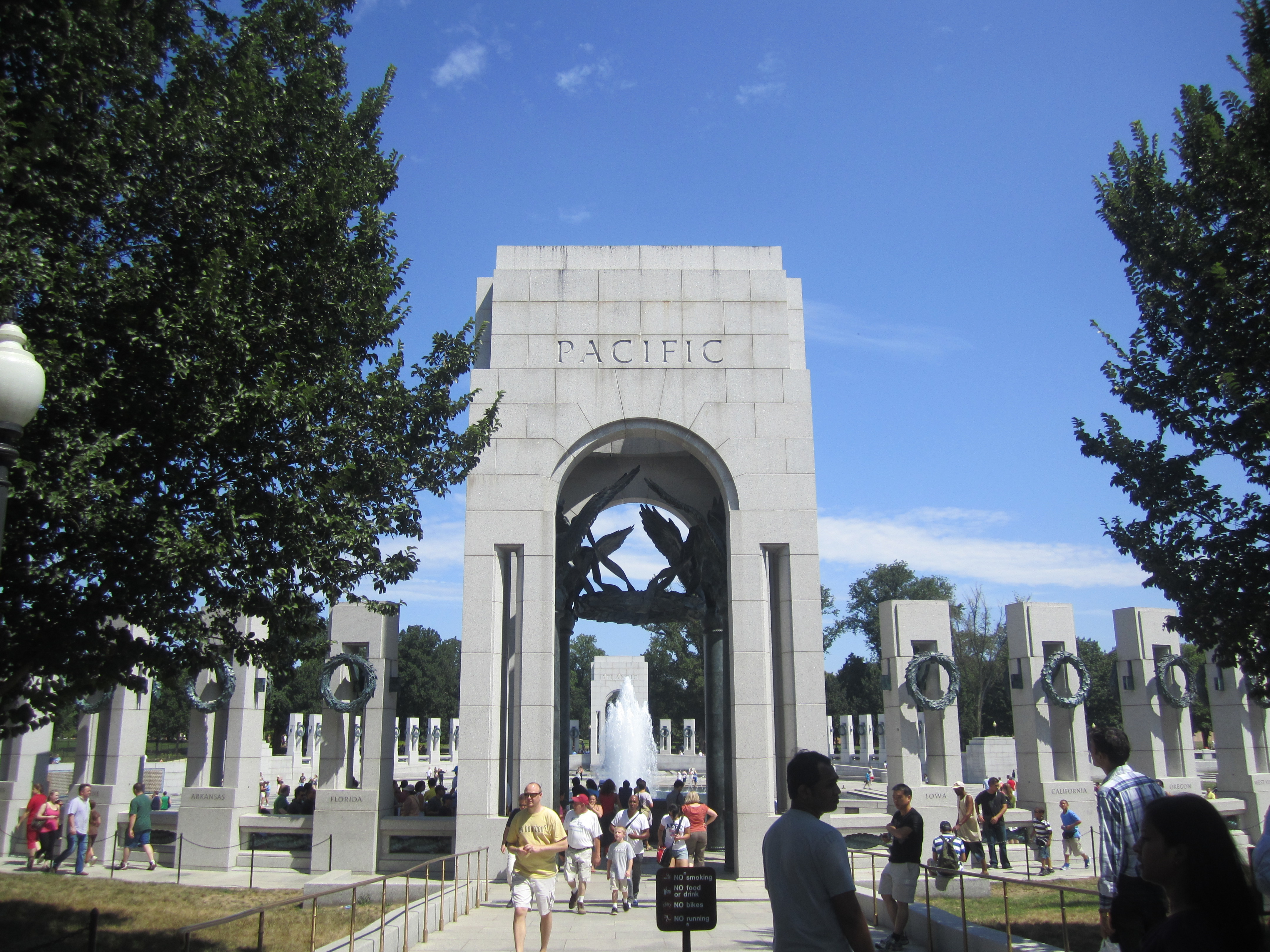 I took photo with Canon camera of National World War II Memorial, the Pacific section.